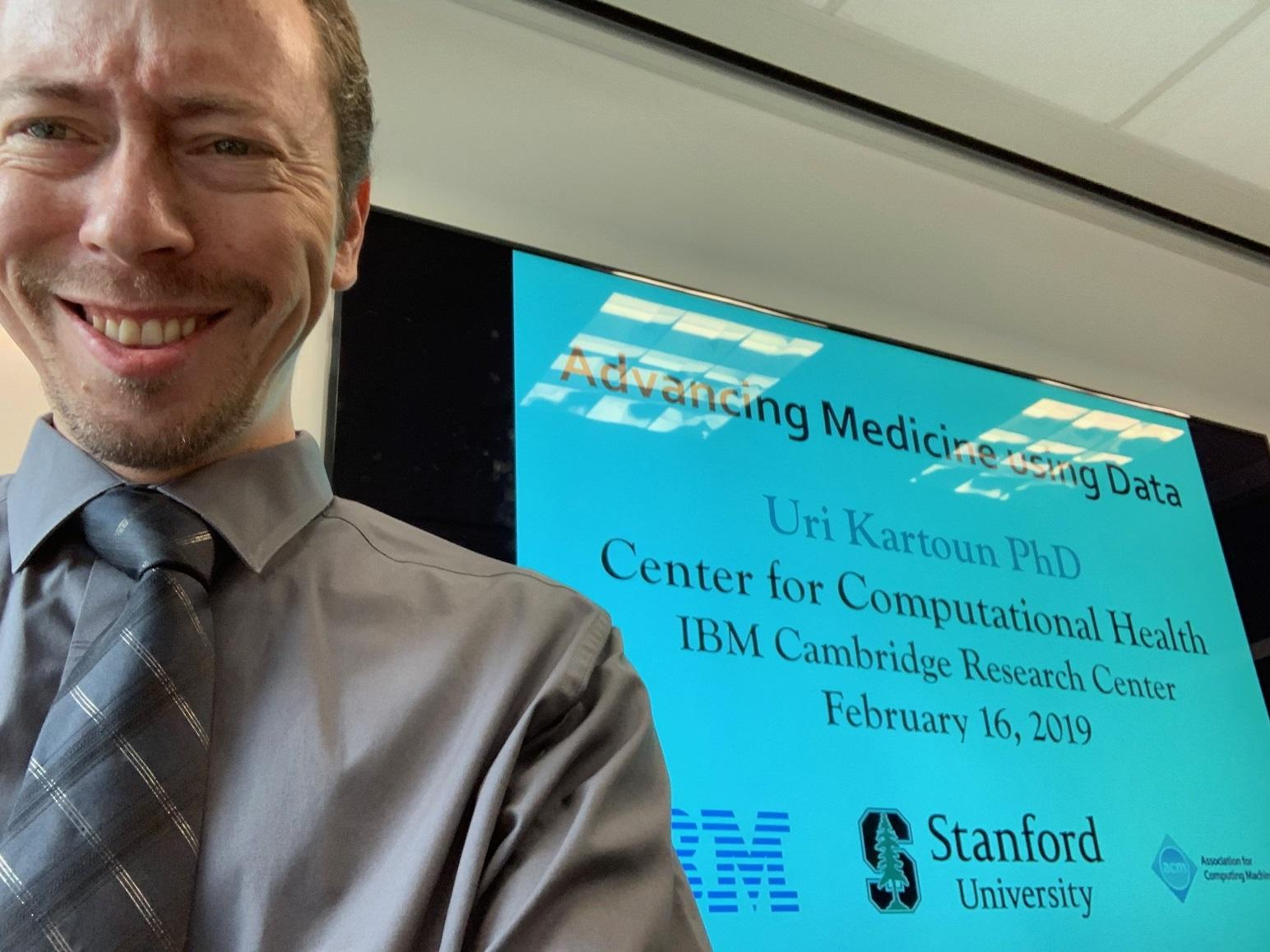 Uri Kartoun - Talk at Stanford University, Feb. 2019.